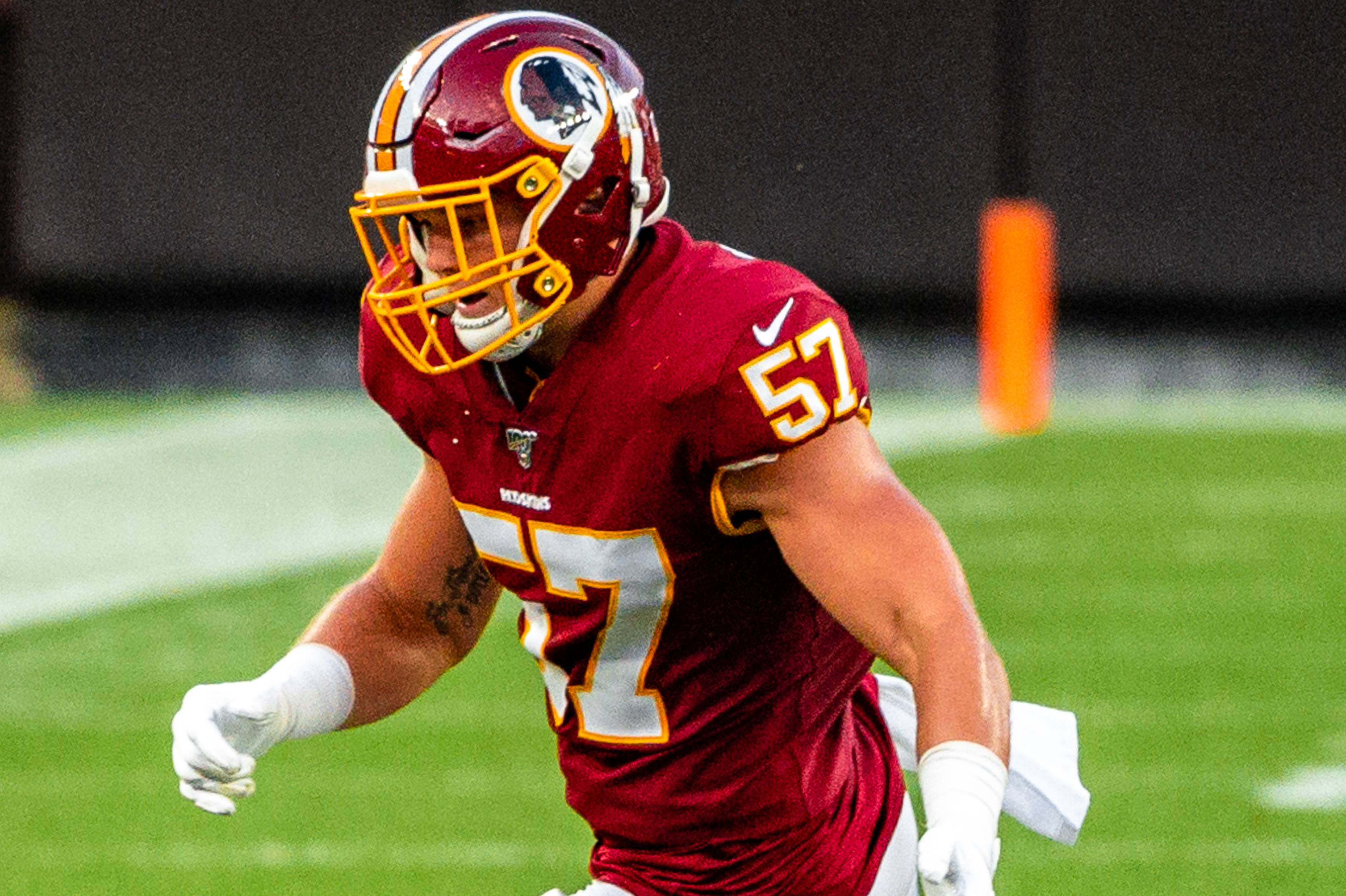 Washington Redskins linebacker Cole Holcomb and cornerback Dominique Rodgers-Cromartie playing a preseason game against the Cleveland Browns on August 8, 2019